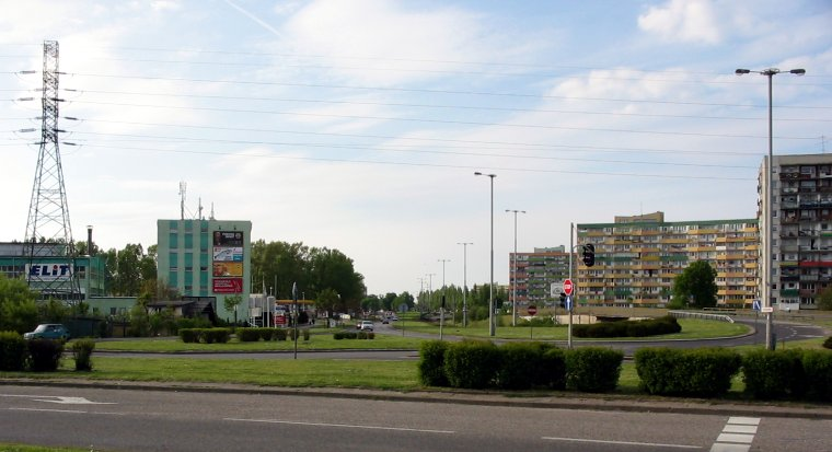 Przymorze (district of Gdańsk) seen from Zaspa-Młyniec.